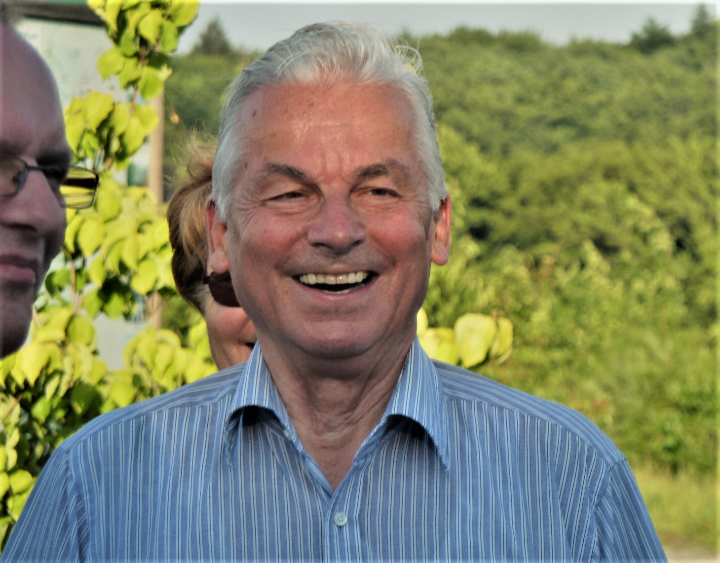 Otto Wienhaus (* 14. August 1937 in Tharandt) Professor of organic chemistry